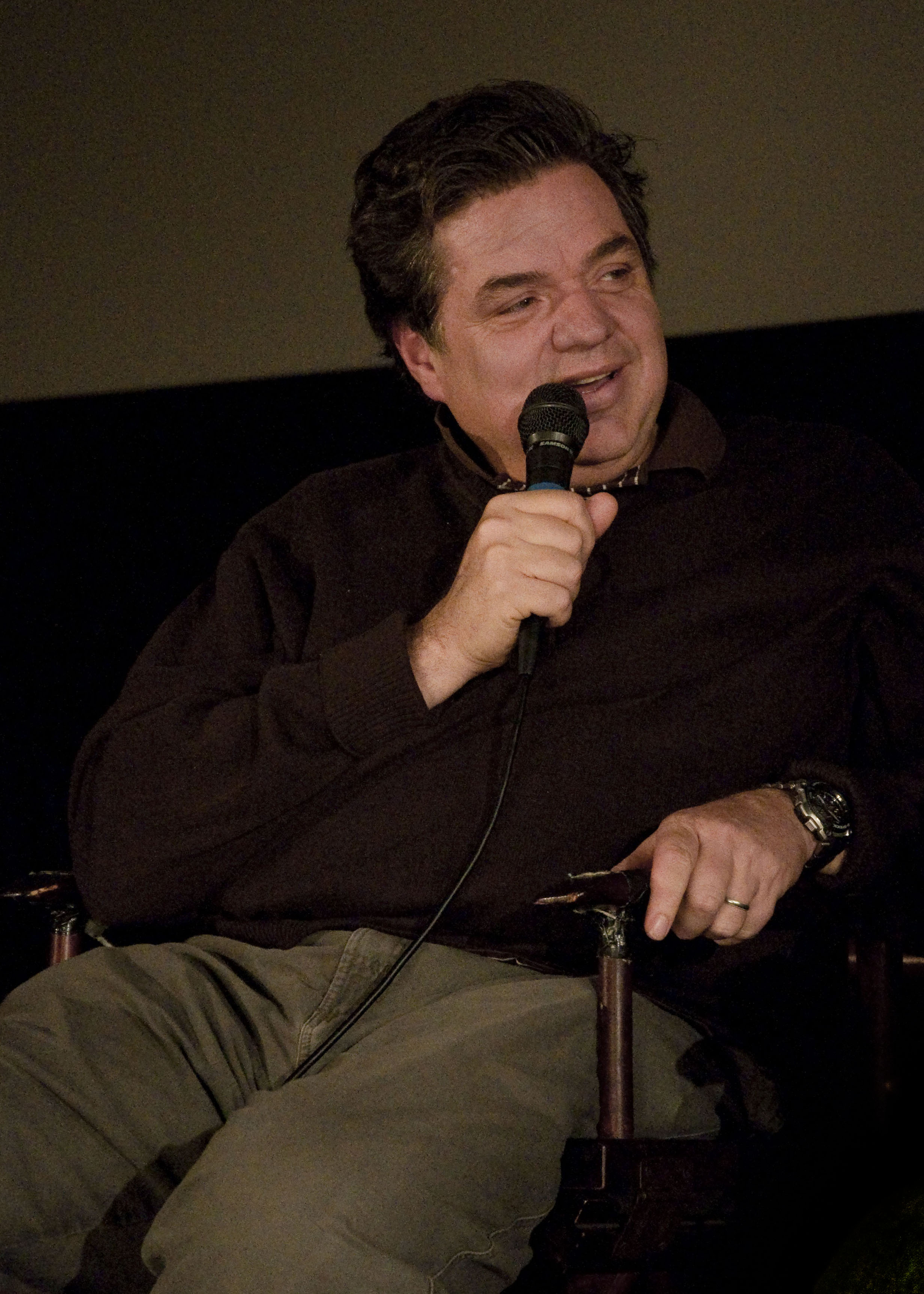 Oliver Platt during a Question & Answer session following a screening of the movie "Please Give" in Paramus, New Jersey